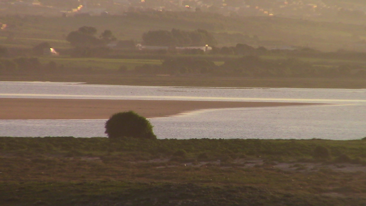 Sidi Moussa Lagoon Nature Preserve - View